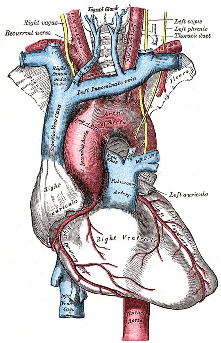 the heart, thoracic aorta and its branches